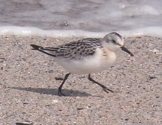 bird, about 15 cm, photo taken in a marine beach, Playa de Ponzos, Ferrol, Spain